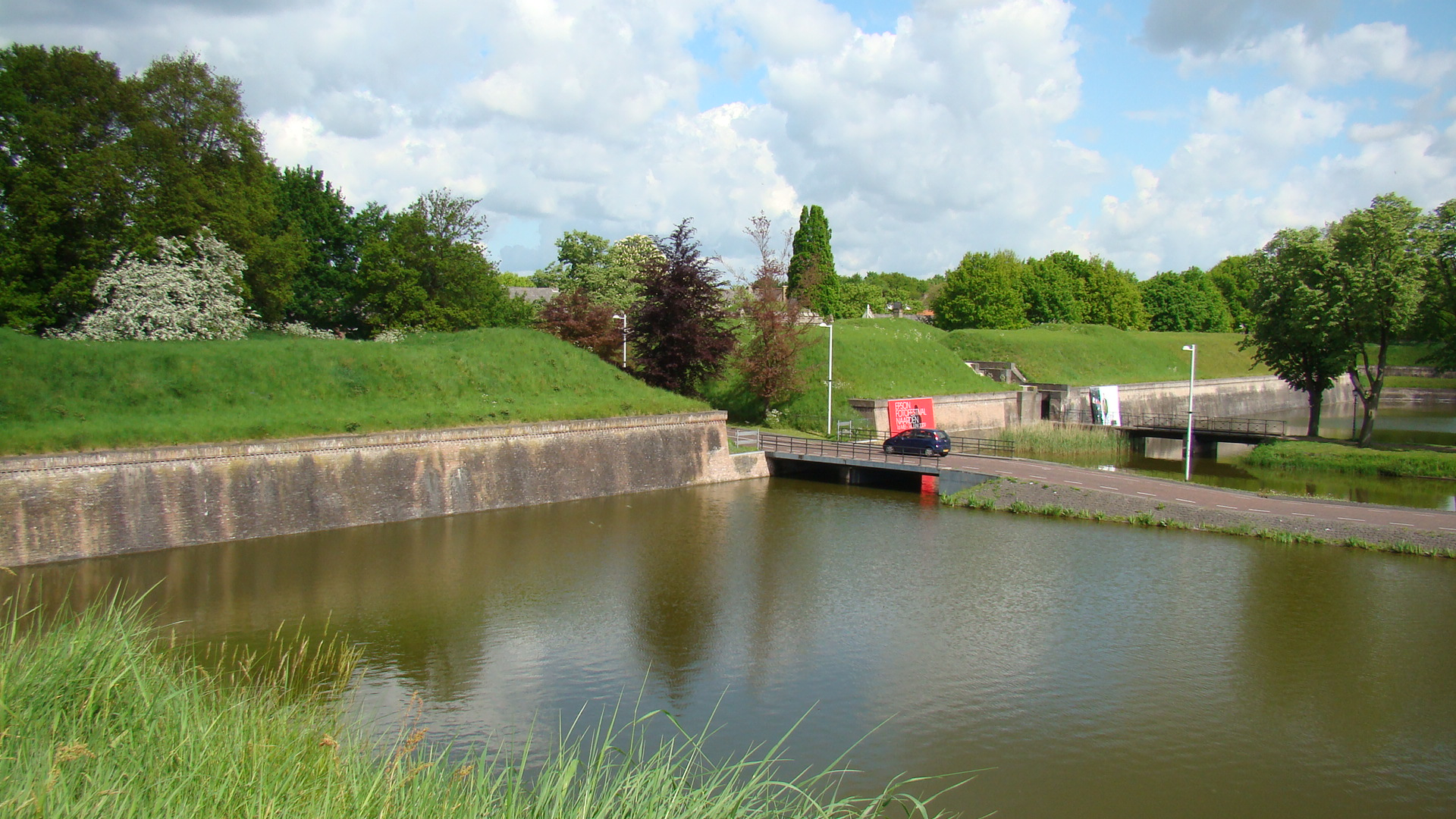 Escarp of Naarden Vesting